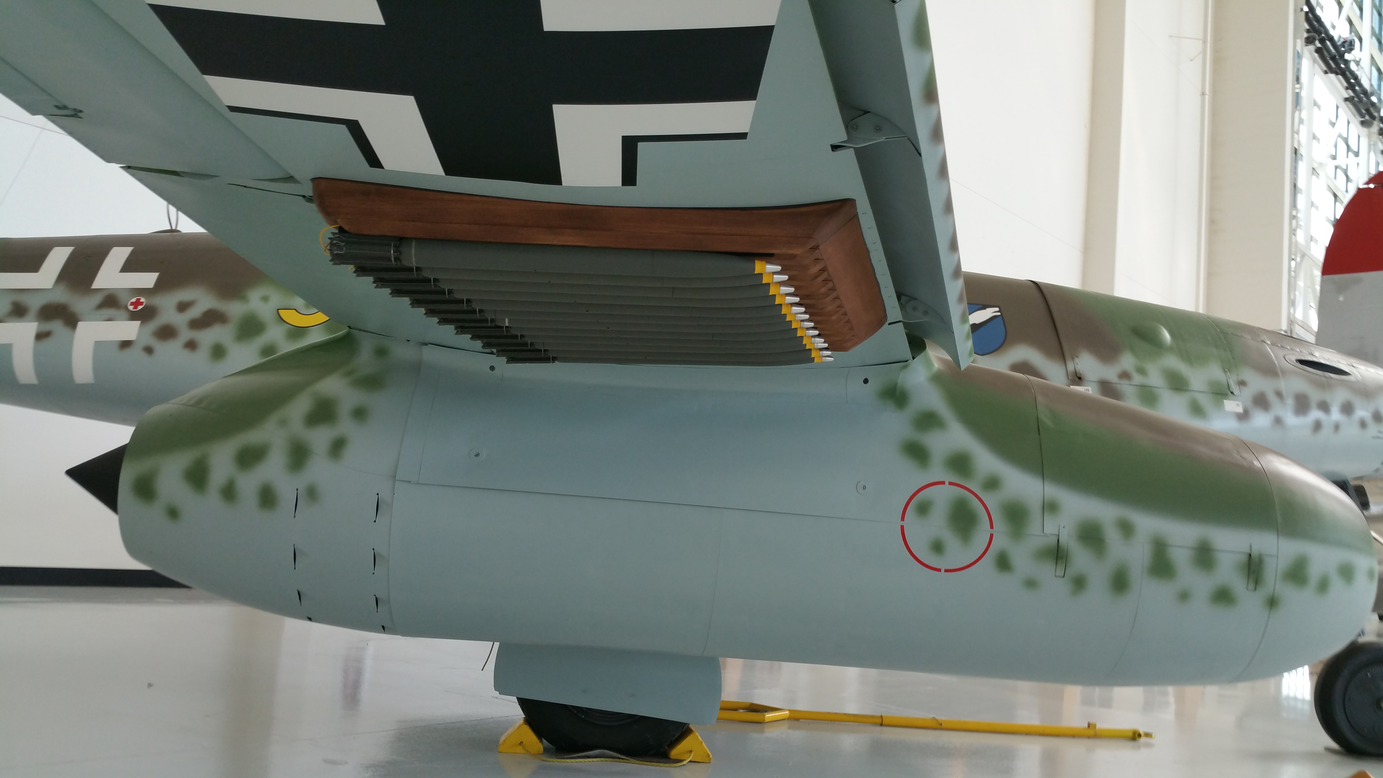 Messerschmitt Me 262 at the Evergreen Aviation & Space Museum